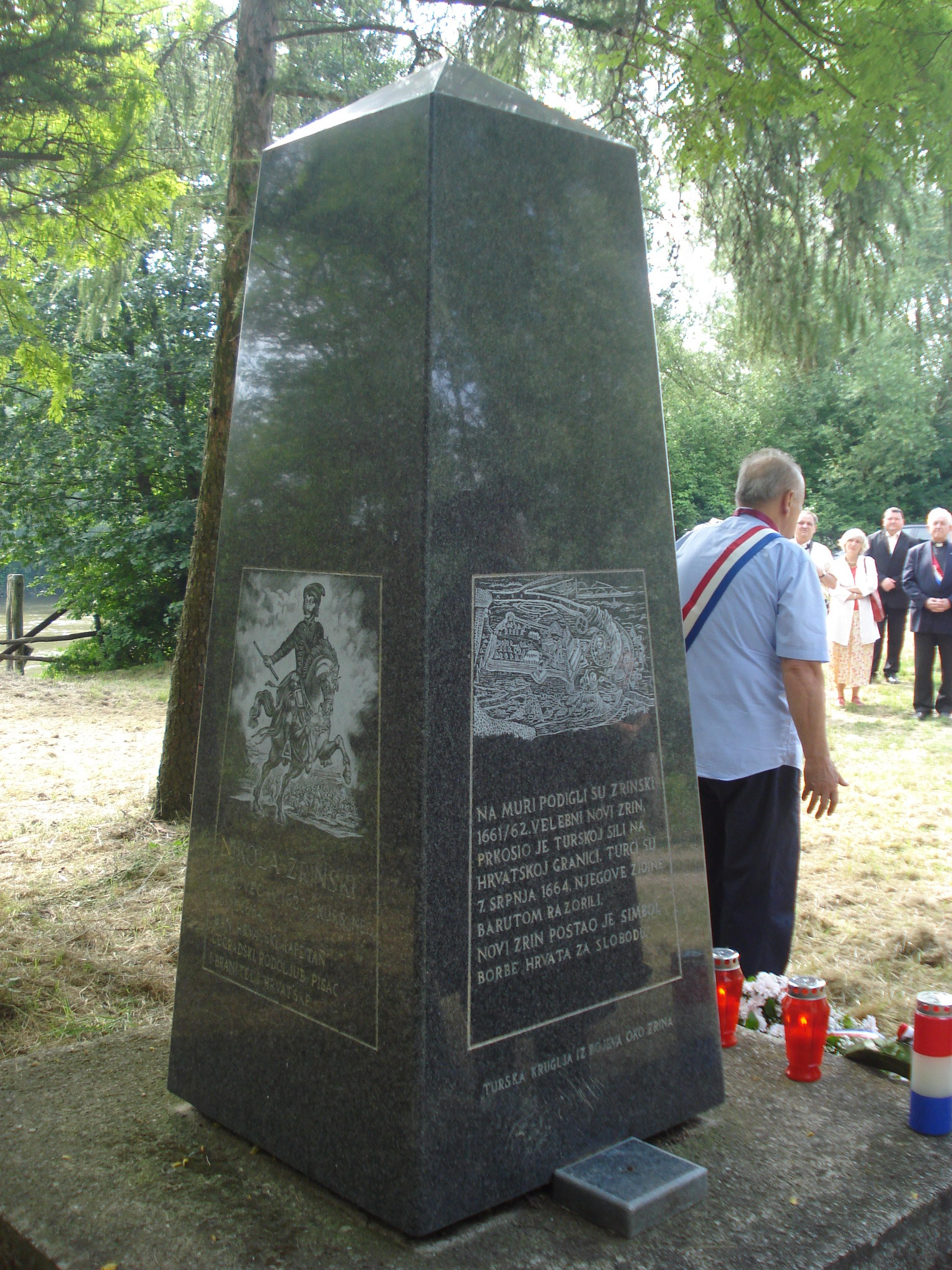 Novi Zrin Castle monument, a granite obelisk at Donja Dubrava in Međimurje County, Croatia - northwest view